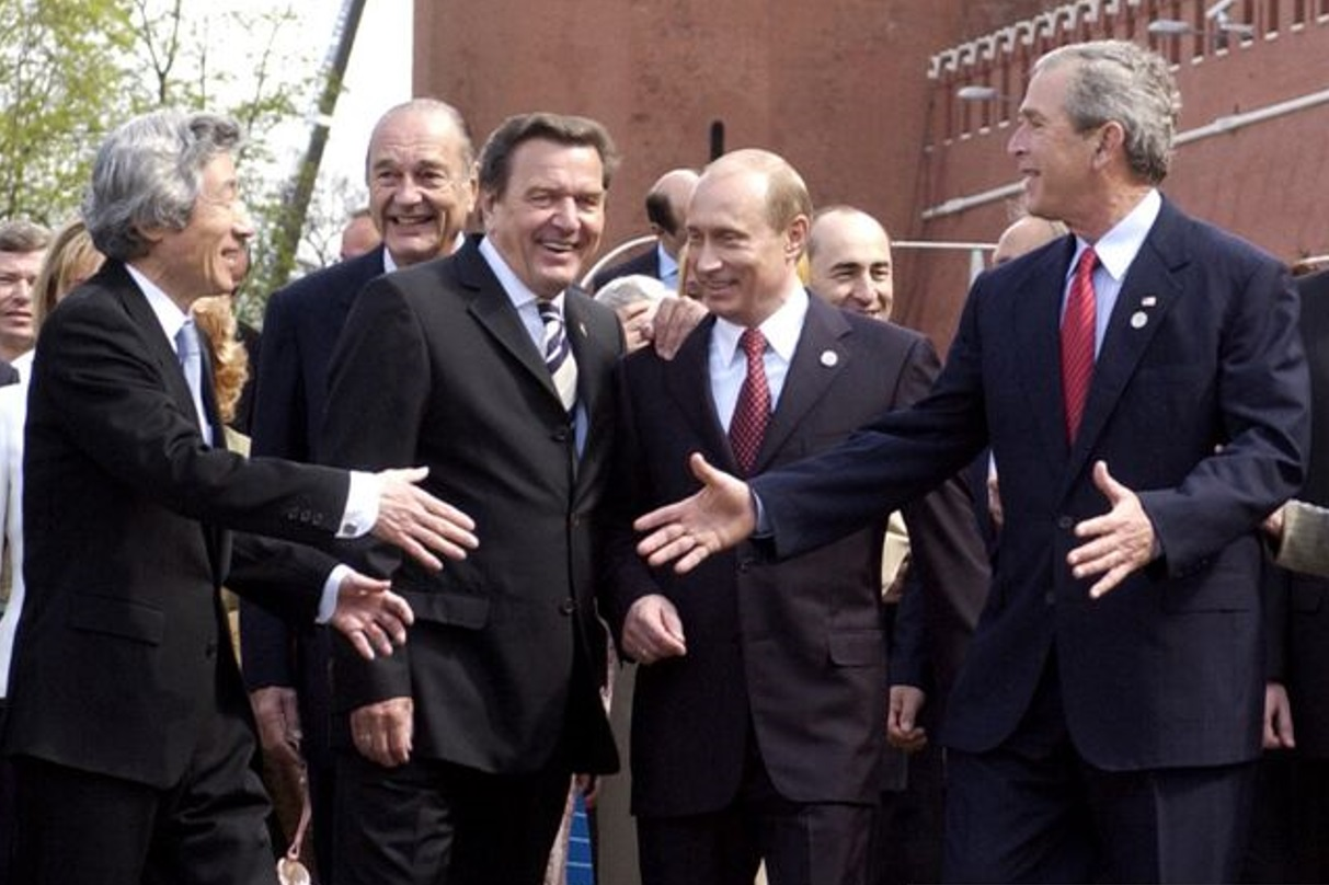 ALEXANDROVSKY GARDENS, MOSCOW. With Japanese Prime Minister Junichiro Koizumi, German Chancellor Gerhard Schroeder and U.S. President George W. Bush.